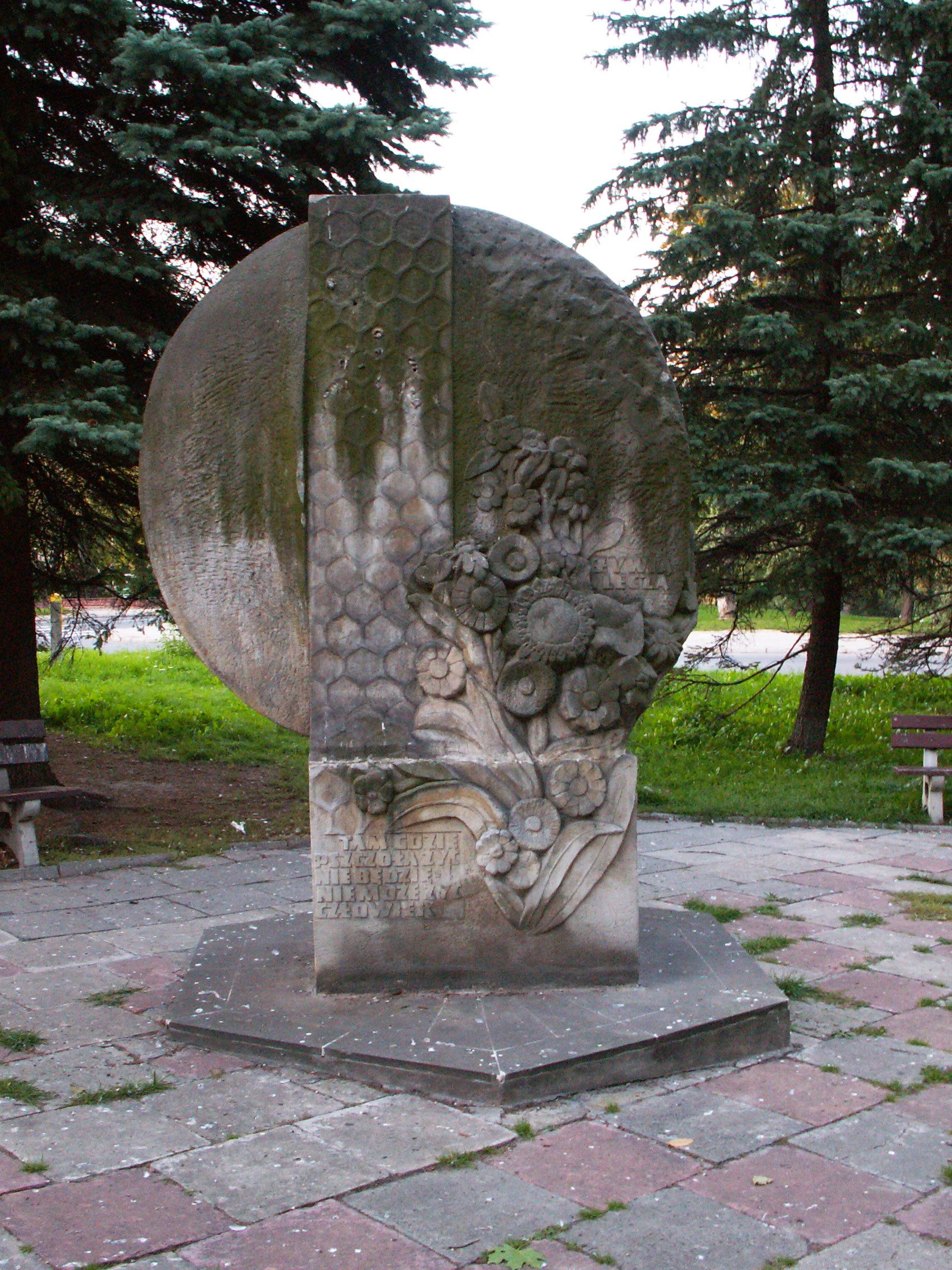 Bee statue in Kielce (Poland)